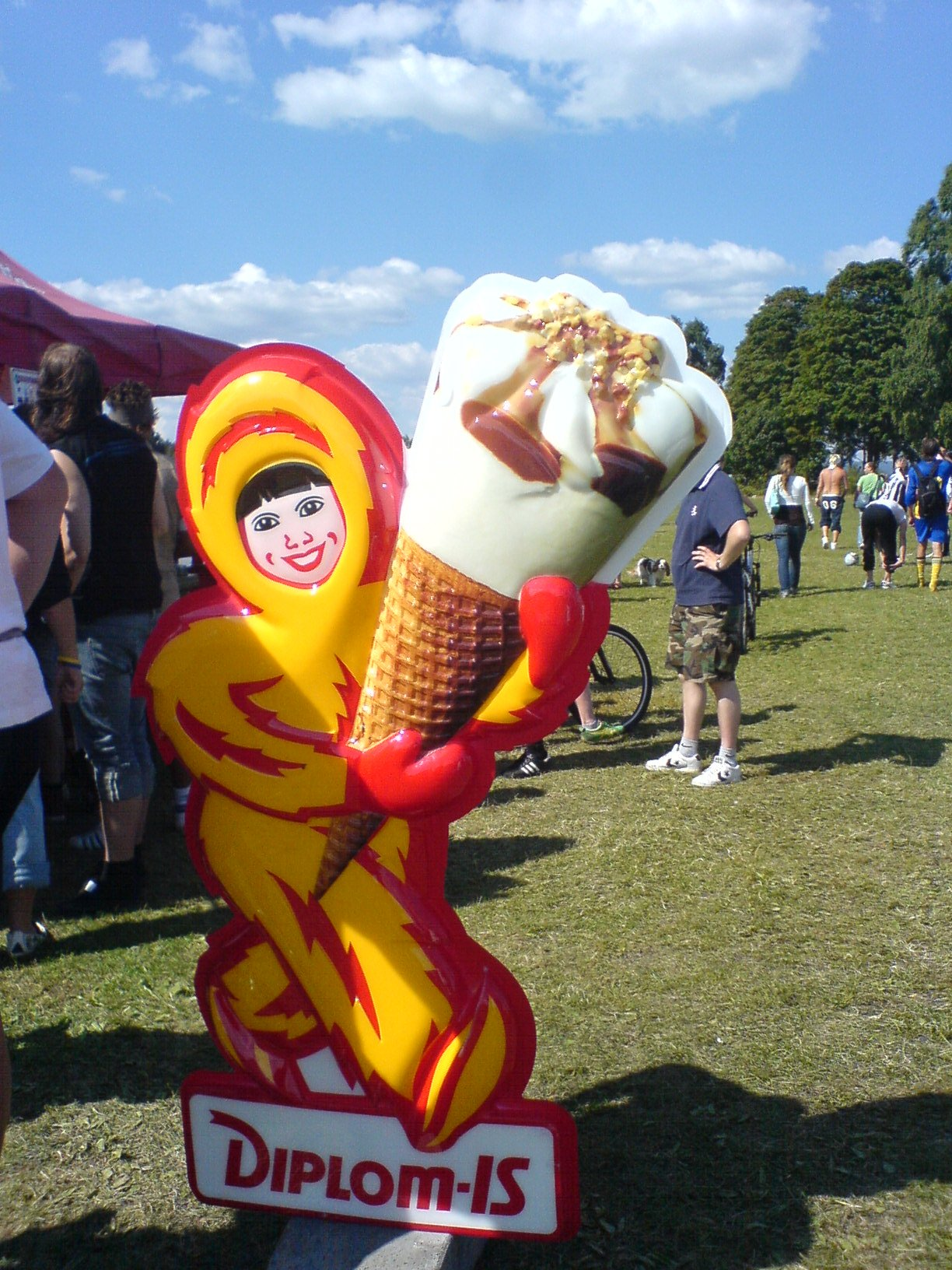 The mascot of Diplom-is.